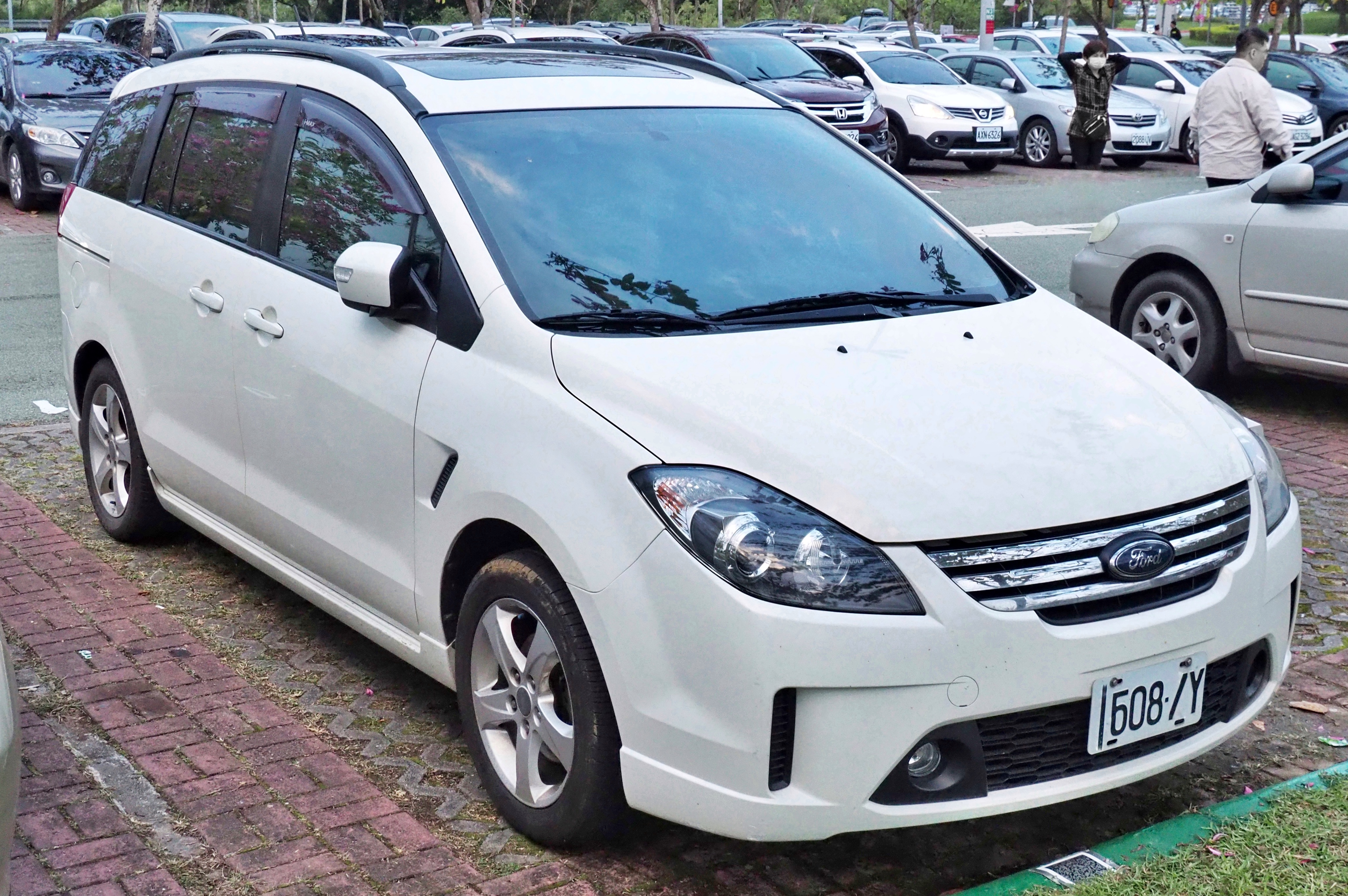 A 2007 Ford Lio Ho i-Max photographed in Dongshan District, Tainan, Taiwan.